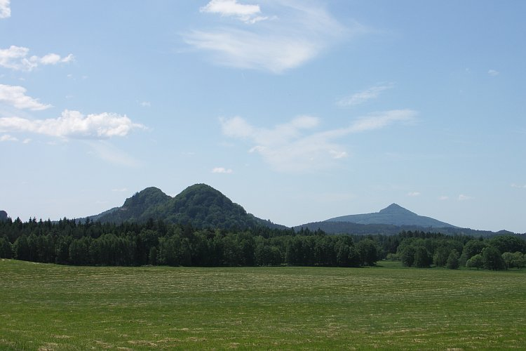 Devin Castle, Czech Republic